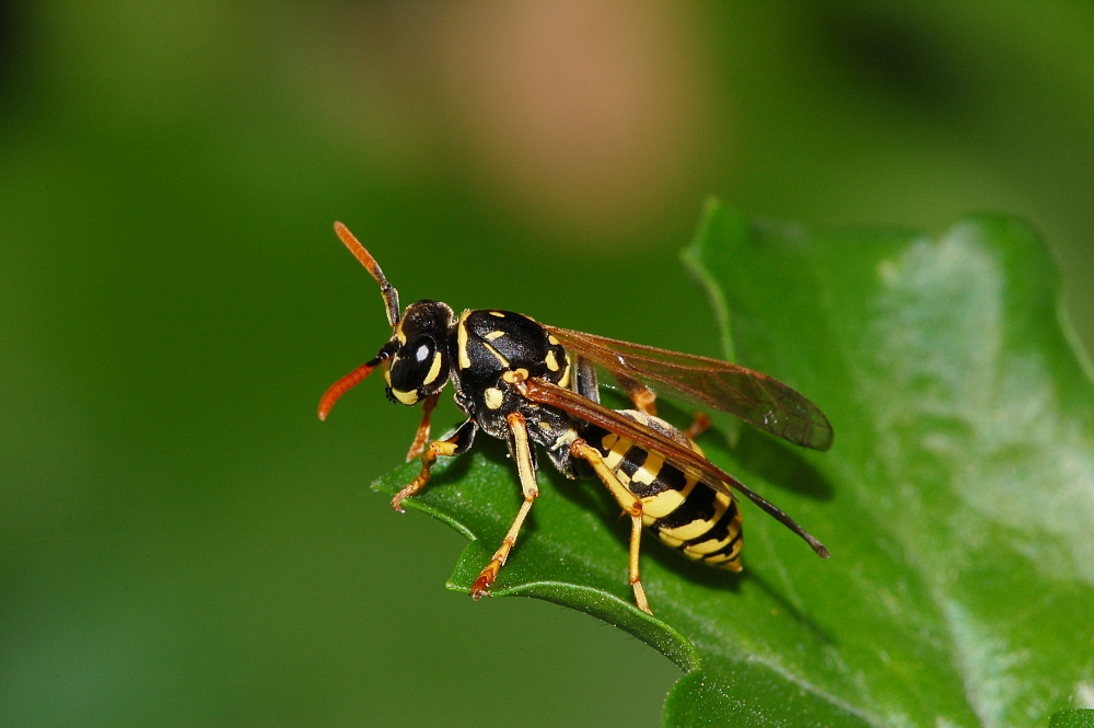 Polistes dominulus, Nied, Frankfurt/Main, Germany